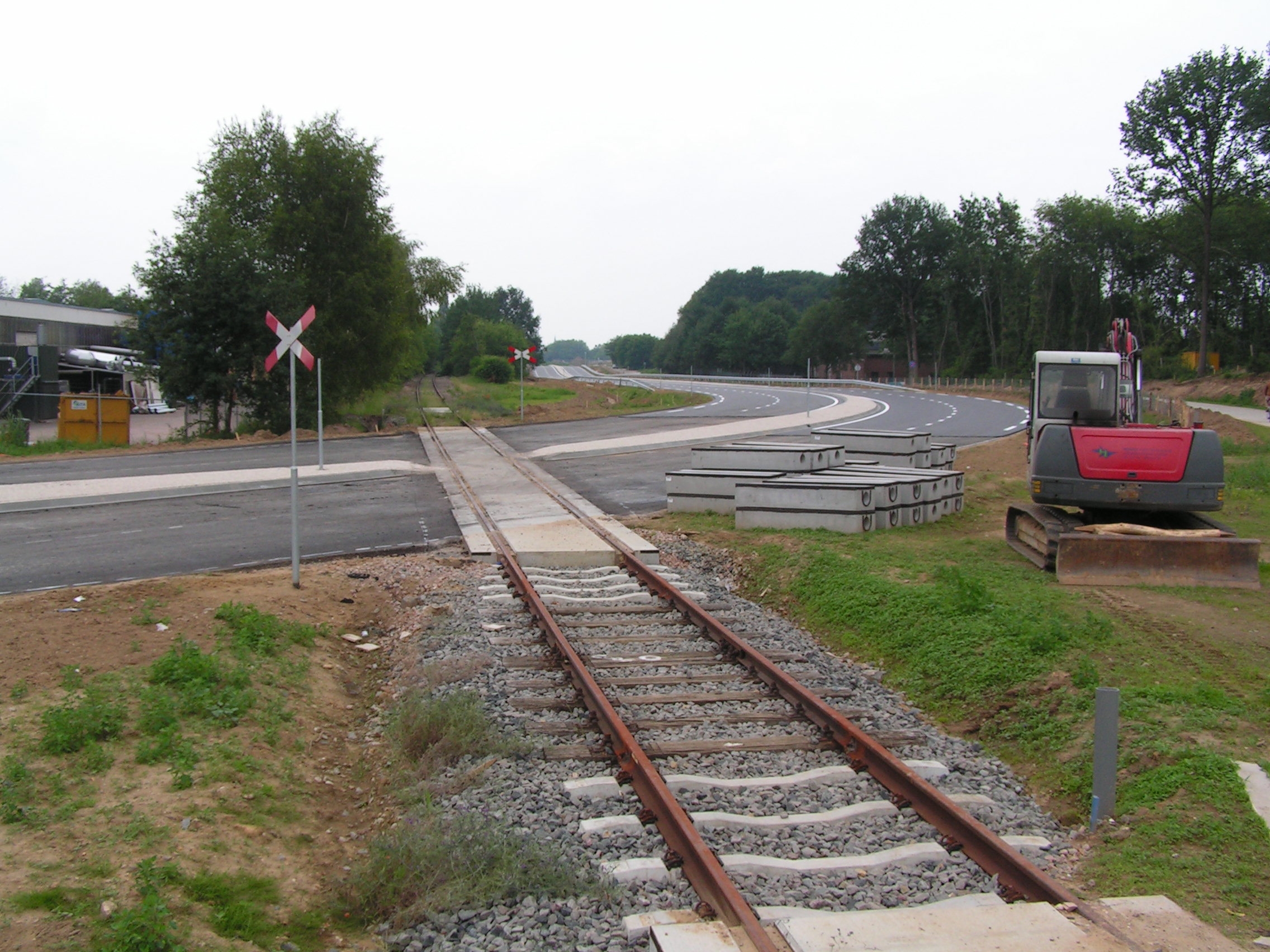 Level crossing of the Iron Rhine railway line and the N293 near Roermond in the Netherlands.